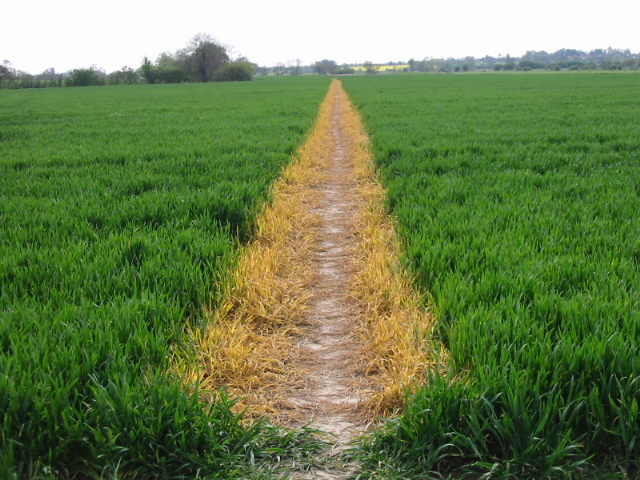 Well defined footpath towards Ashford. Section of the Stour Valley Walk, the route in the previous field 794814 had not been marked.